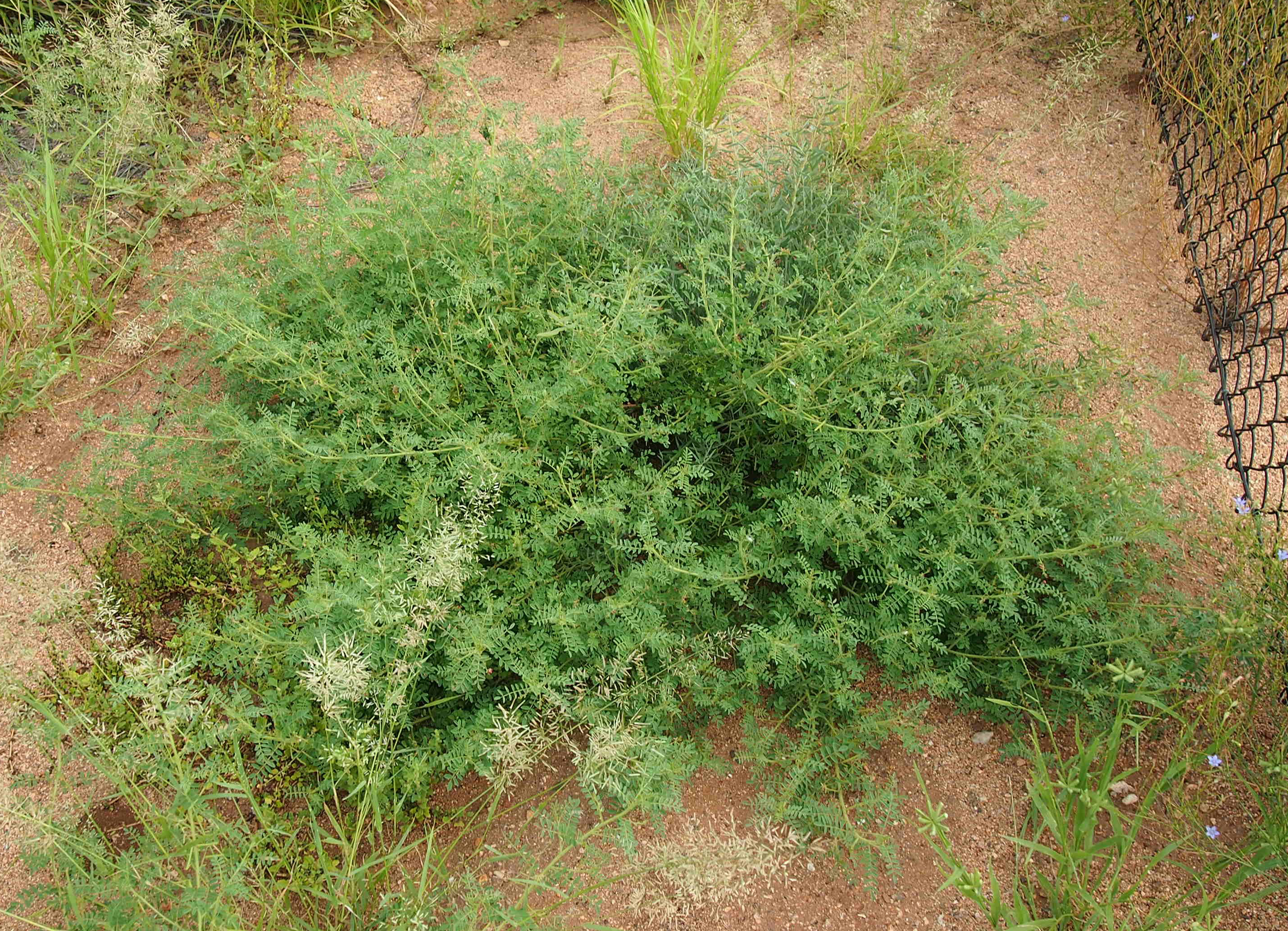 Indigofera colutea habitus